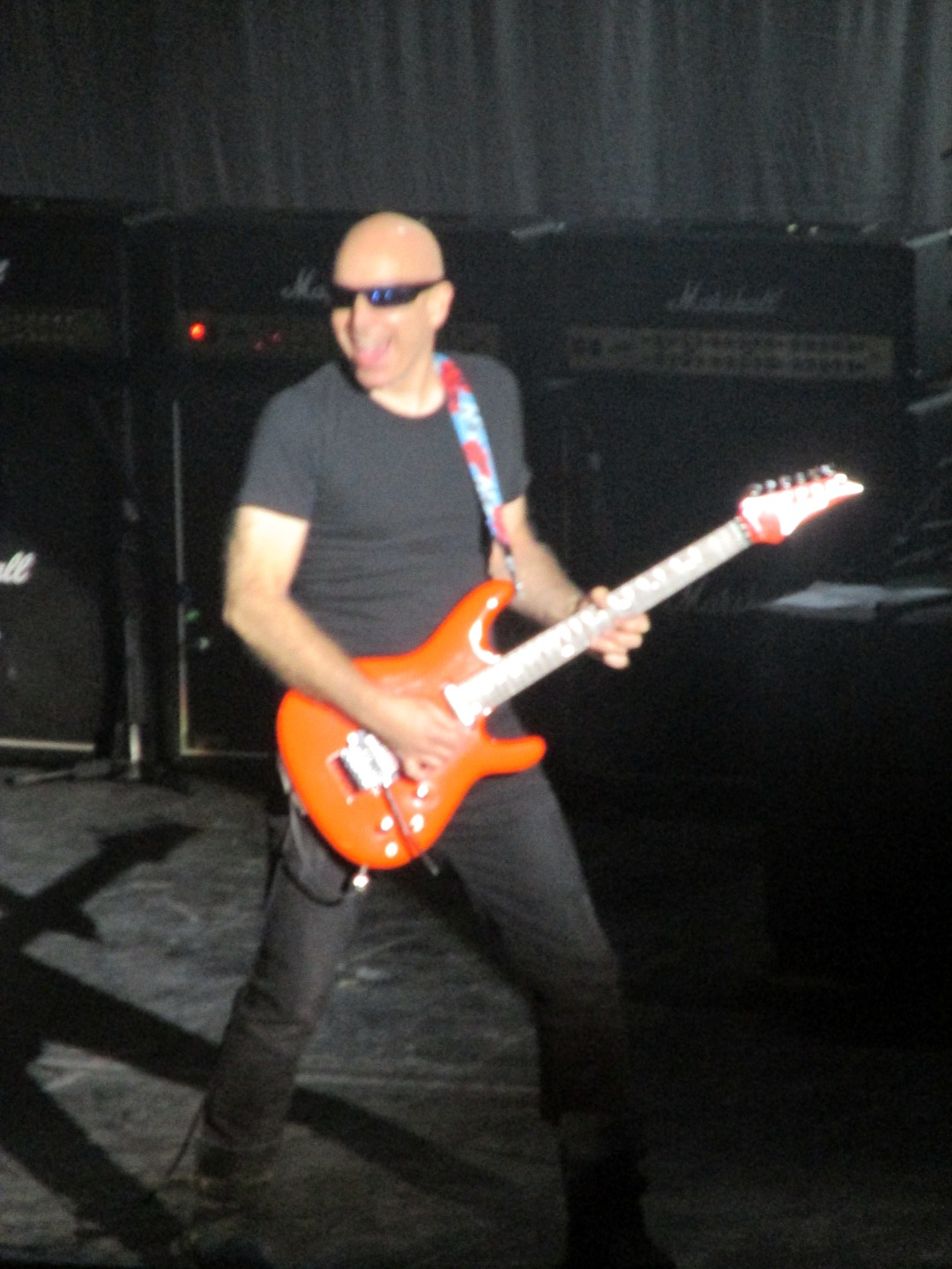 Joe Satriani in Bogota, Colombia, 2014.